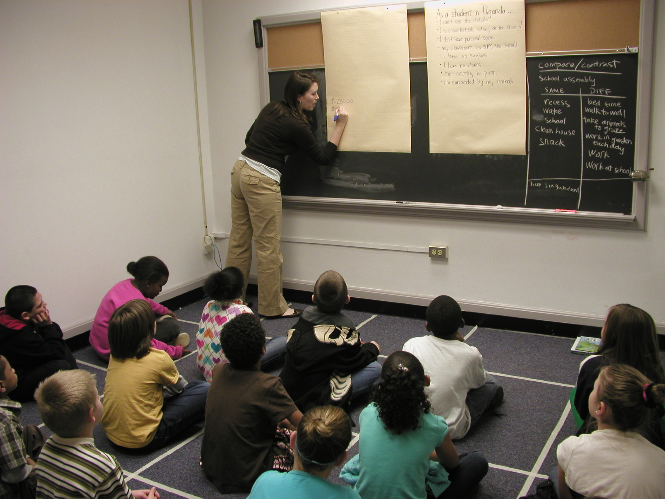 Clark Elementary in Charlottesville, VA participated in Sit for Good, Building Tomorrow's K-12 service learning campaign.